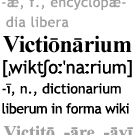 Logo of the Latin Wiktionary